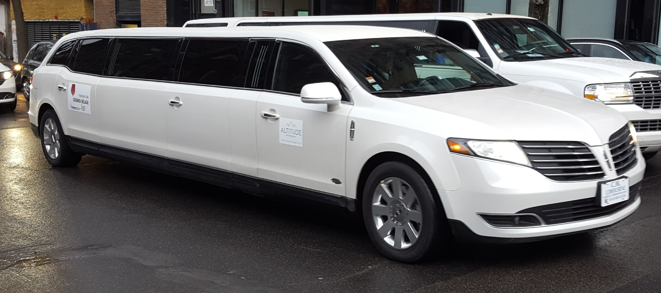 2017-present Lincoln MKT Town Car photographed in Montréal, Québec, Canada .